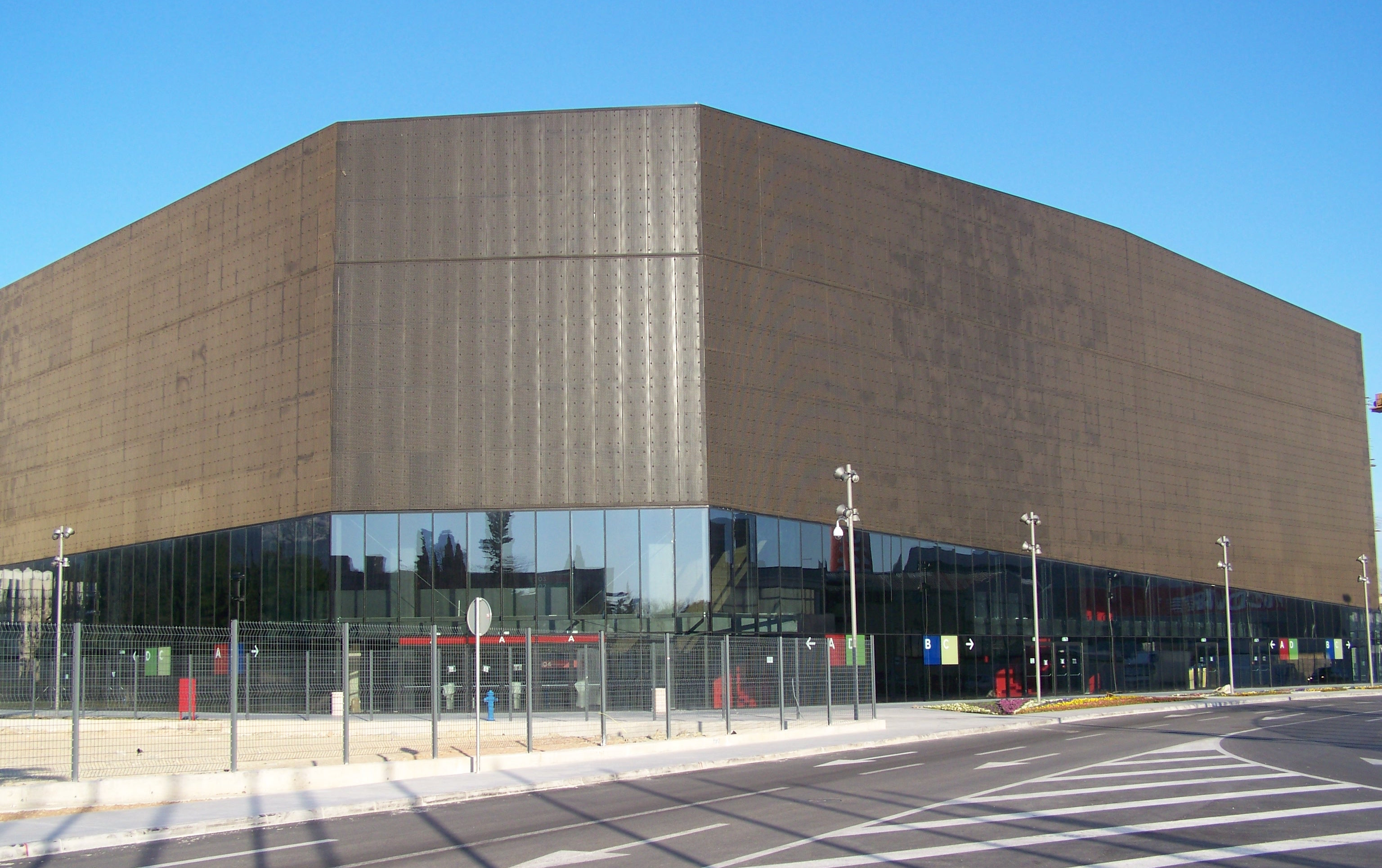 Spaladium Arena